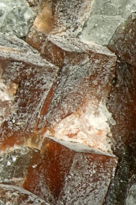 Villiaumite. Are these “real” crystals or cleavages? The powdery coating (thermonatrite per the label but not analyzed) suggests that these are actual xls. But it’s hard to be sure with villiaumite so I make no claims. - Locality: Poudrette quarry (Demix quarry; Uni-Mix quarry; Desourdy quarry), Mont Saint-Hilaire, Rouville RCM, Montérégie, Québec, Canada - FOV 4.5 x 6.7 mm